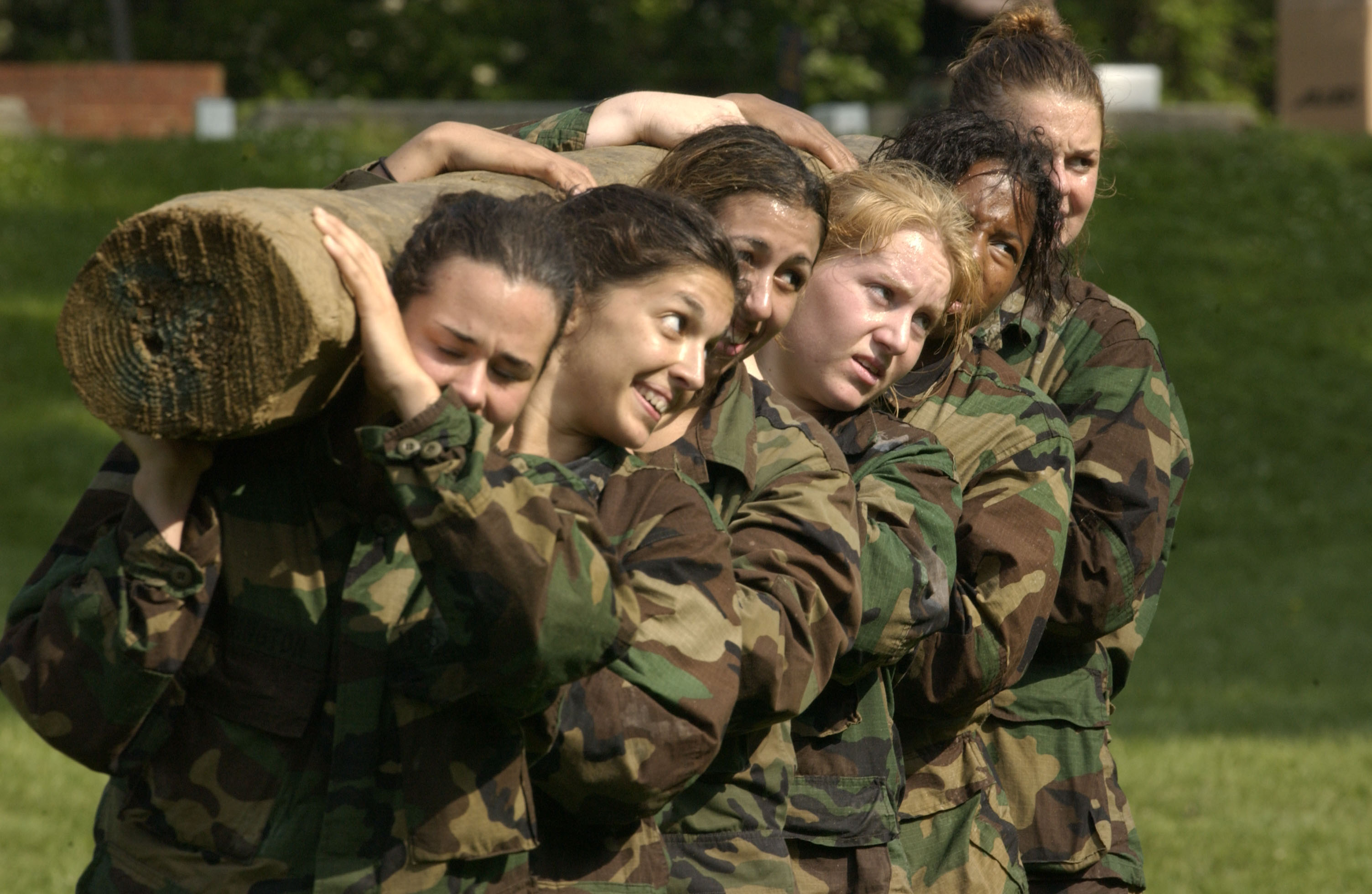 U.S. Naval Academy (May 18, 2004) - A squad of Midshipmen work with a log as part of teamwork training during Sea Trials. The "capstone" event places fourth-class midshipmen in a physically and mentally demanding environment that instills in them the values of good leadership, teamwork, and perseverance. Sea Trials allows the fourth class to participate in a memorable and worthwhile event that teaches them much about their own abilities and limitations as well as the advantages of working as a team. U.S. Navy photo by Photographer's Mate 2nd Class Damon J. Moritz. (RELEASED)